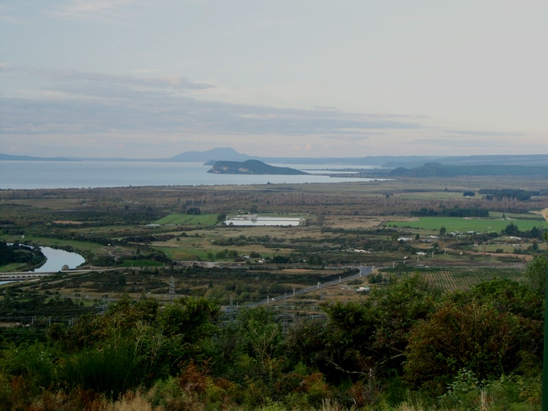 Turangi to Taupo area, Eastern Lake Taupo. uploaded by the author / photographer Paul Moss. Paul Moss Photograher Artist